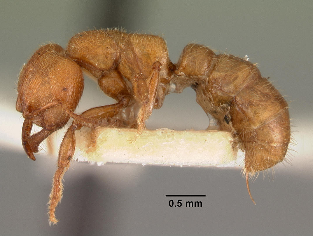 Profile view of ant Amblyopone aberrans specimen casent0102193.